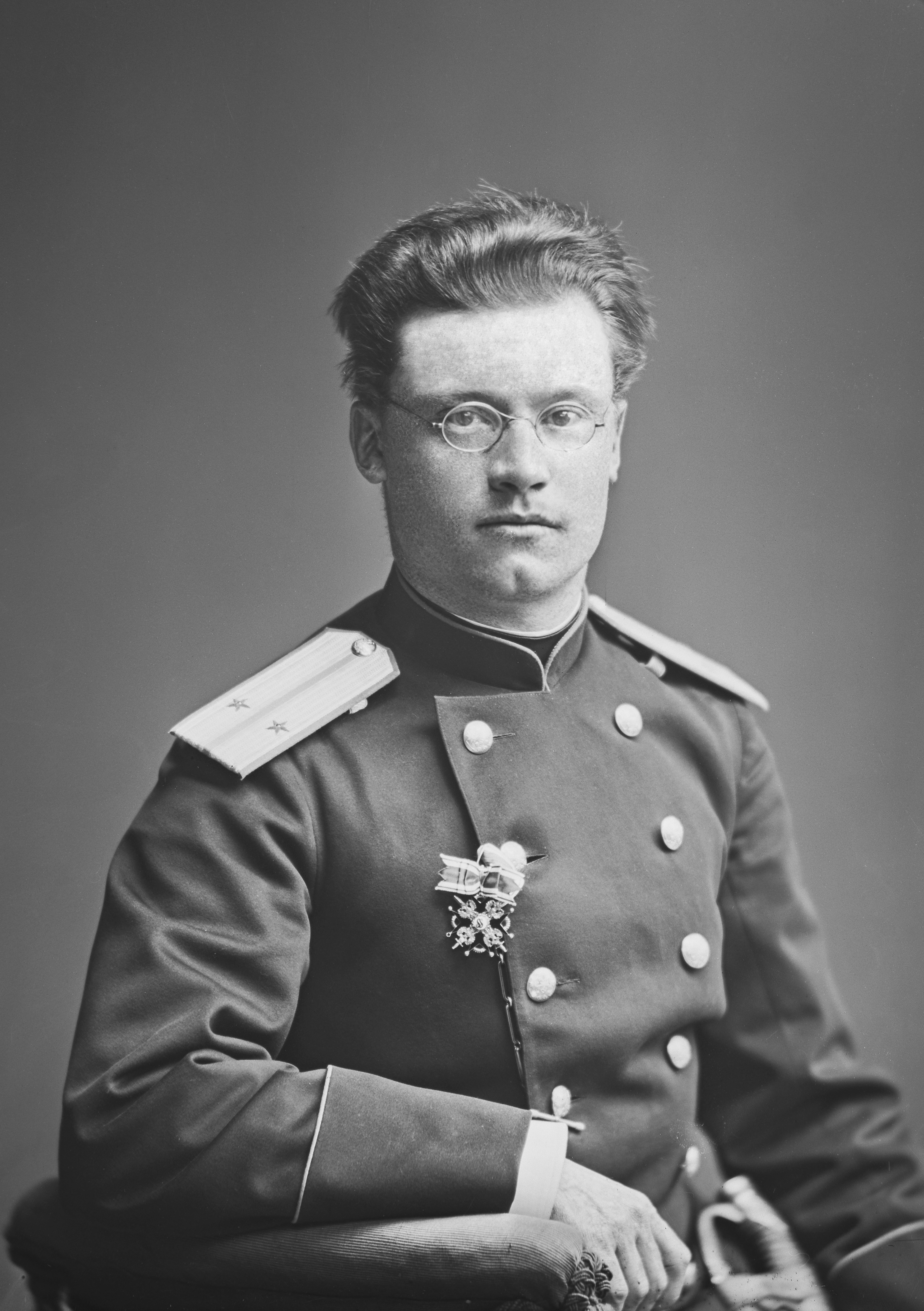 Photograph of the Finnish soldier Gustaf Adolf Gripenberg (1854–1918).